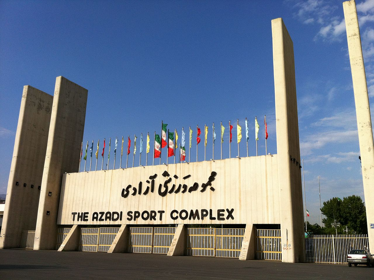 Azadi sports complex main gate